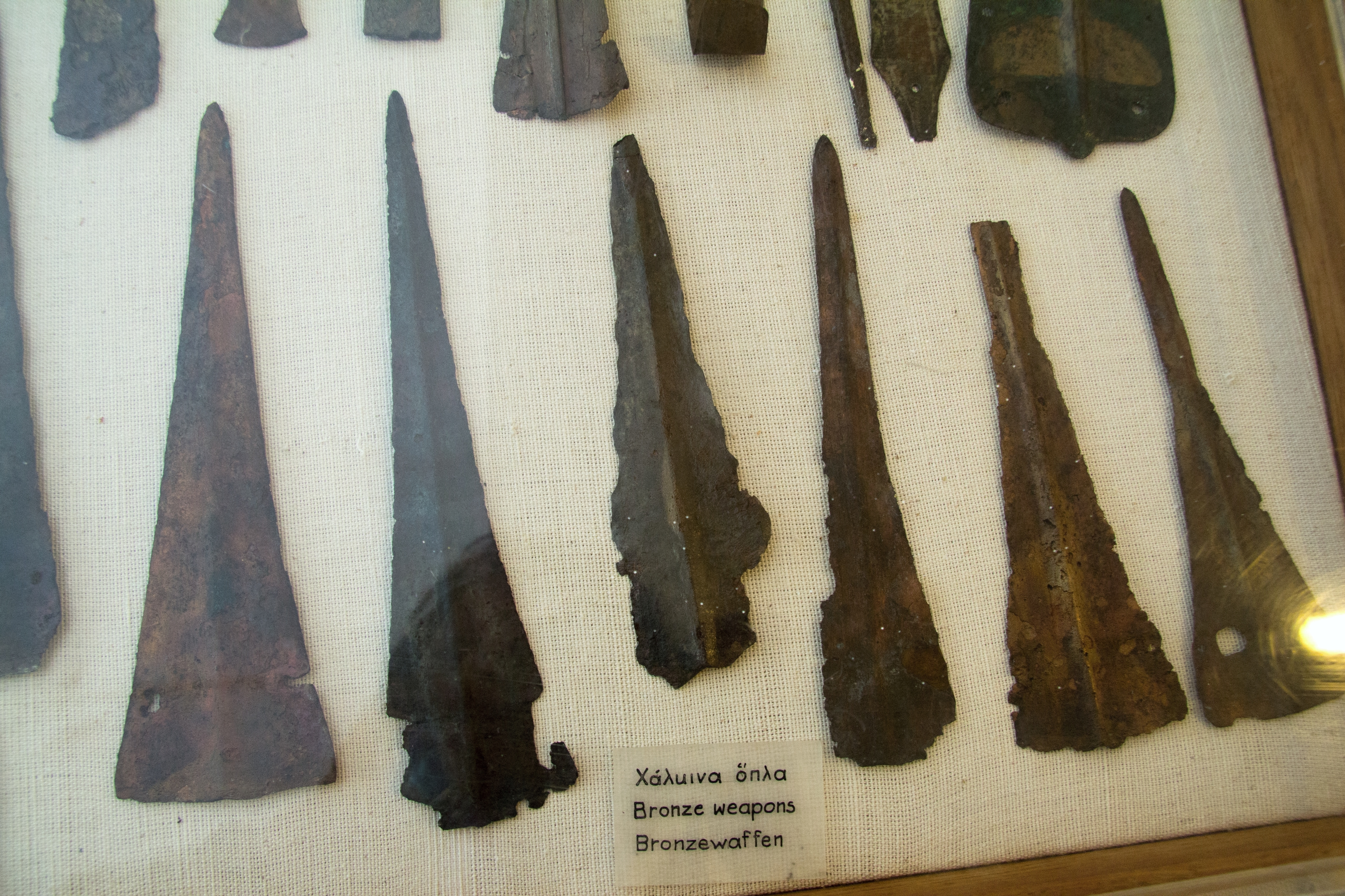 Early Cycladic bronze weapons. Early Bronze Age, 2800 – 2200 BC. Finds from the southeast of Naxos. Archaeological museum of Apeiranthos on Naxos.